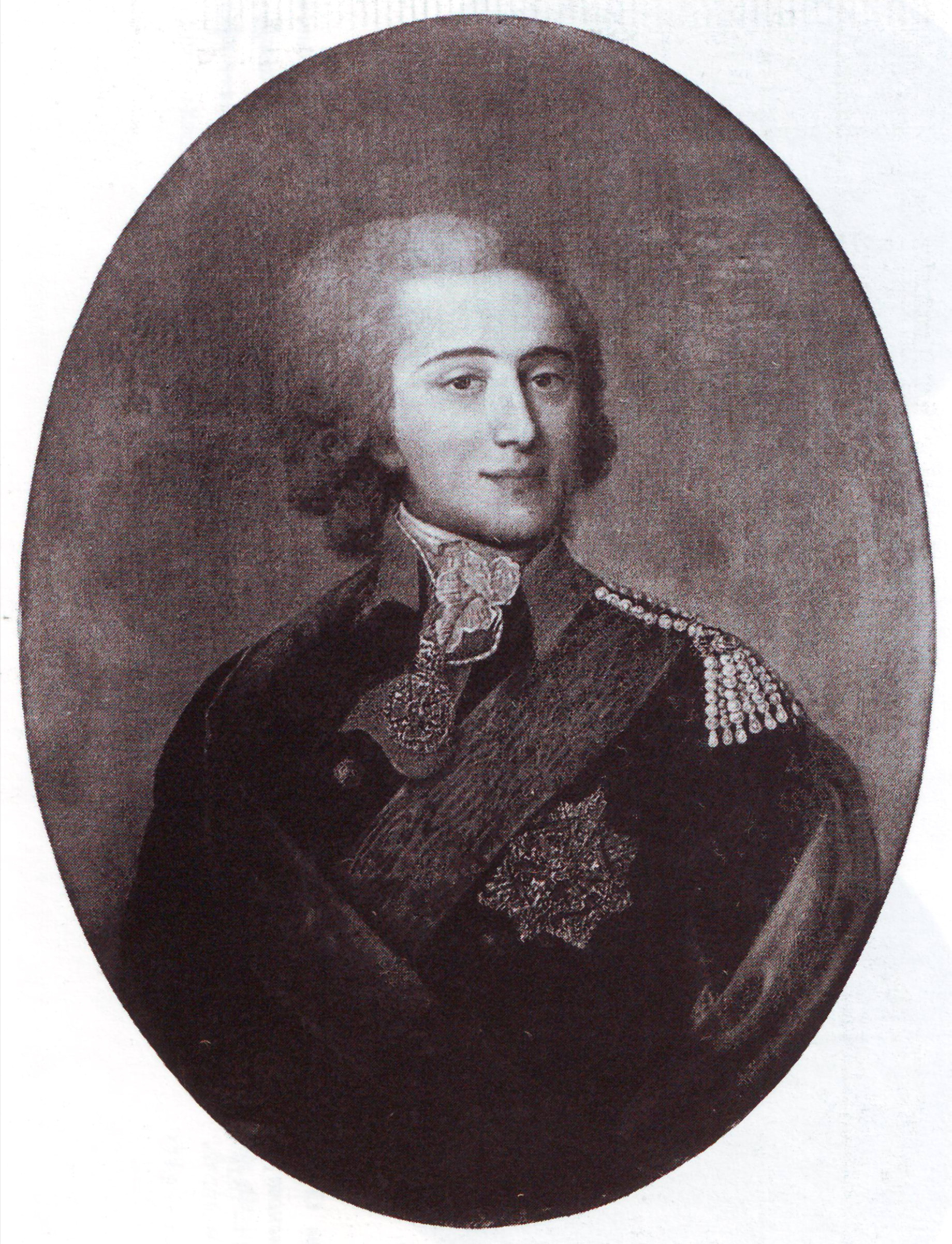 Portrait of Ivan Rimsky-Korsakov (1754-1831)